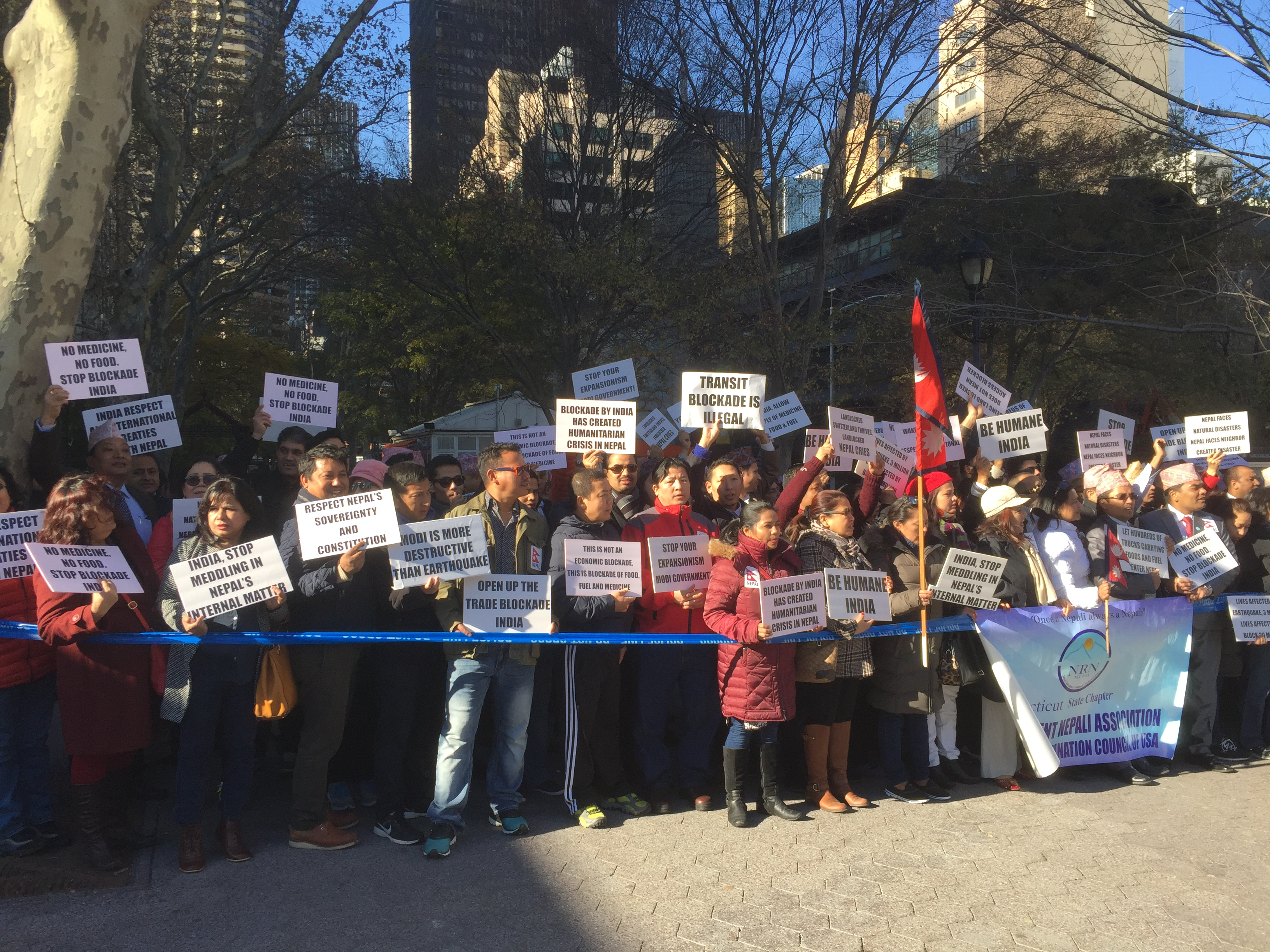 Nepali Community member demonstrate in front UN hq New York against Indian blockade to Nepal